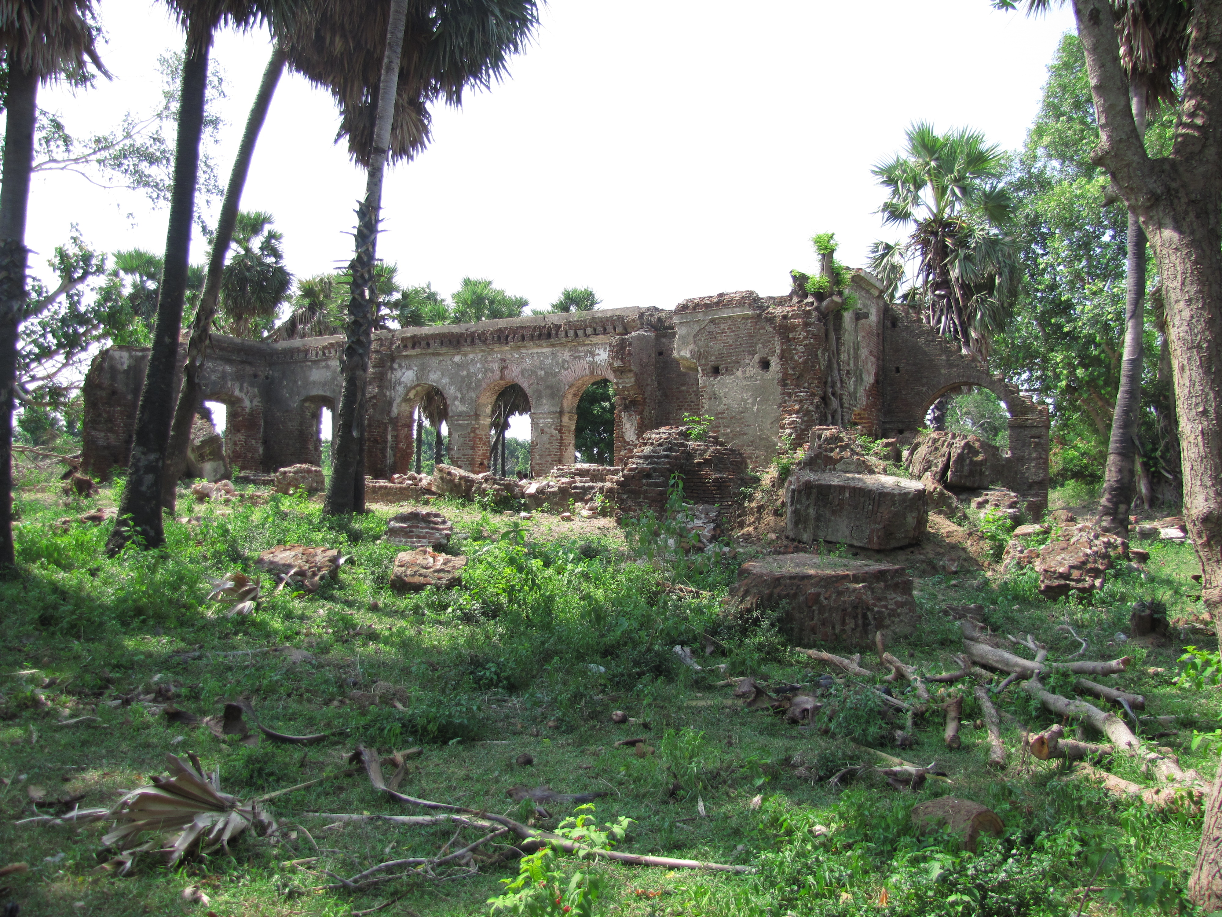 This is a Archeological Survey of India site in Puducherry revealed the trade between Ancient Tamil Country and Rome. This is the remains of the ancient building that existed during the trade.